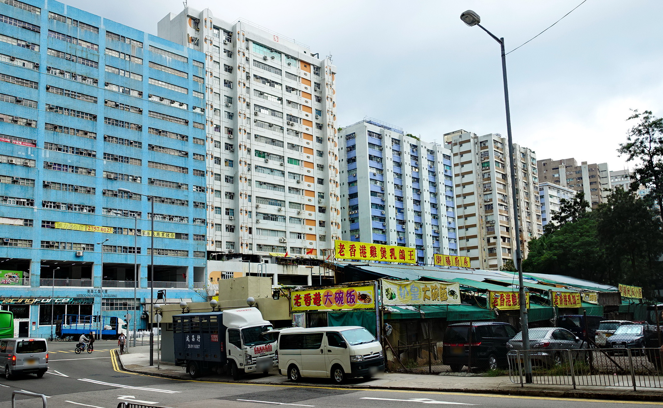 Fo Tan Cooked Food Market (West), New Territories, Hong Kong.